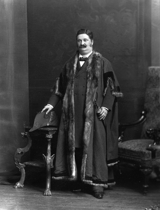 Photograph: R. Wilson Smith, Montreal, QC, 1897, by Wm. Notman & Son. Silver salts on glass, Gelatin dry plate process, 25 x 20 cm